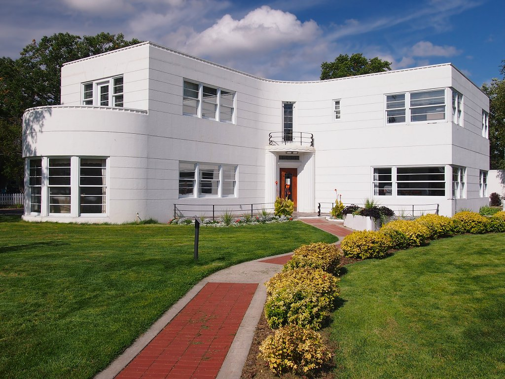 David Park House, 1501 Birchmont Dr., Bemidji, Minnesota, USA, viewed from the southeast. A rare use of Streamline Moderne style for a Minnesota residence. Now the headquarters of Bemidji State University's Foundation & Alumni Association.